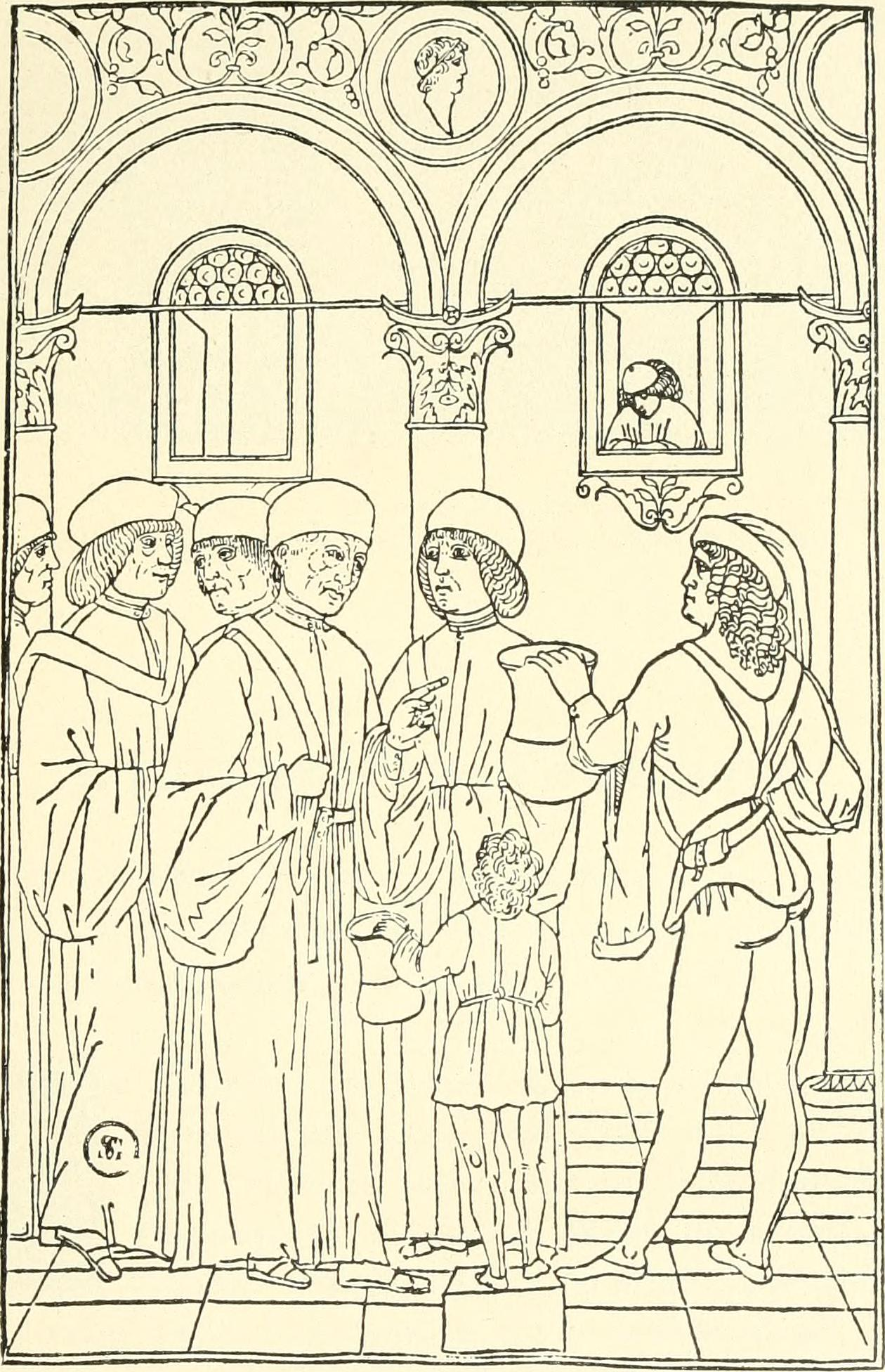 Title: L'urologie et les médecins urologues dans la médecine ancienne : Gilles de Corbeil ; sa vie, ses oeuvres, son poème des urine Year: 1903 (1900s) Authors: Vieillard, Camille Blanchard, Raphael Gilles, de Corbeil, fl. 1200 Cuba, Johannes von, fl. 1484-1503 Subjects: Urology Medicine Urology Medicine Publisher: Paris : Rudeval Text Appearing Before Image: Fig. o. Un urologue. DEUXIEME PARTIE LES MEDECINS UROLOGUESLES UROMANTES Text Appearing After Image: Fig. 7. — Une scène dUrologues. Gravure sur bois extraite du Fasciculus Médicinal de Johannes de Kethani. Venetiis 1500.